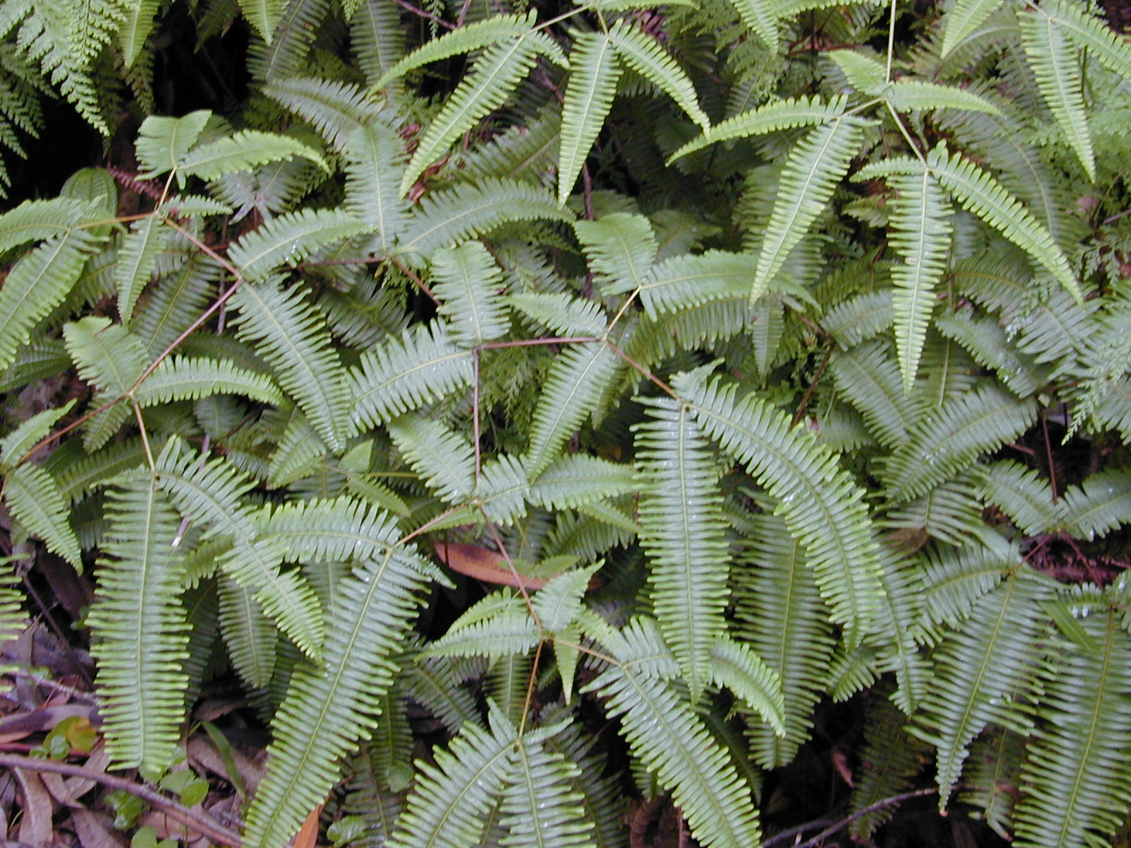 Dicranopteris linearis (habit). Location: Maui, Wahinepee